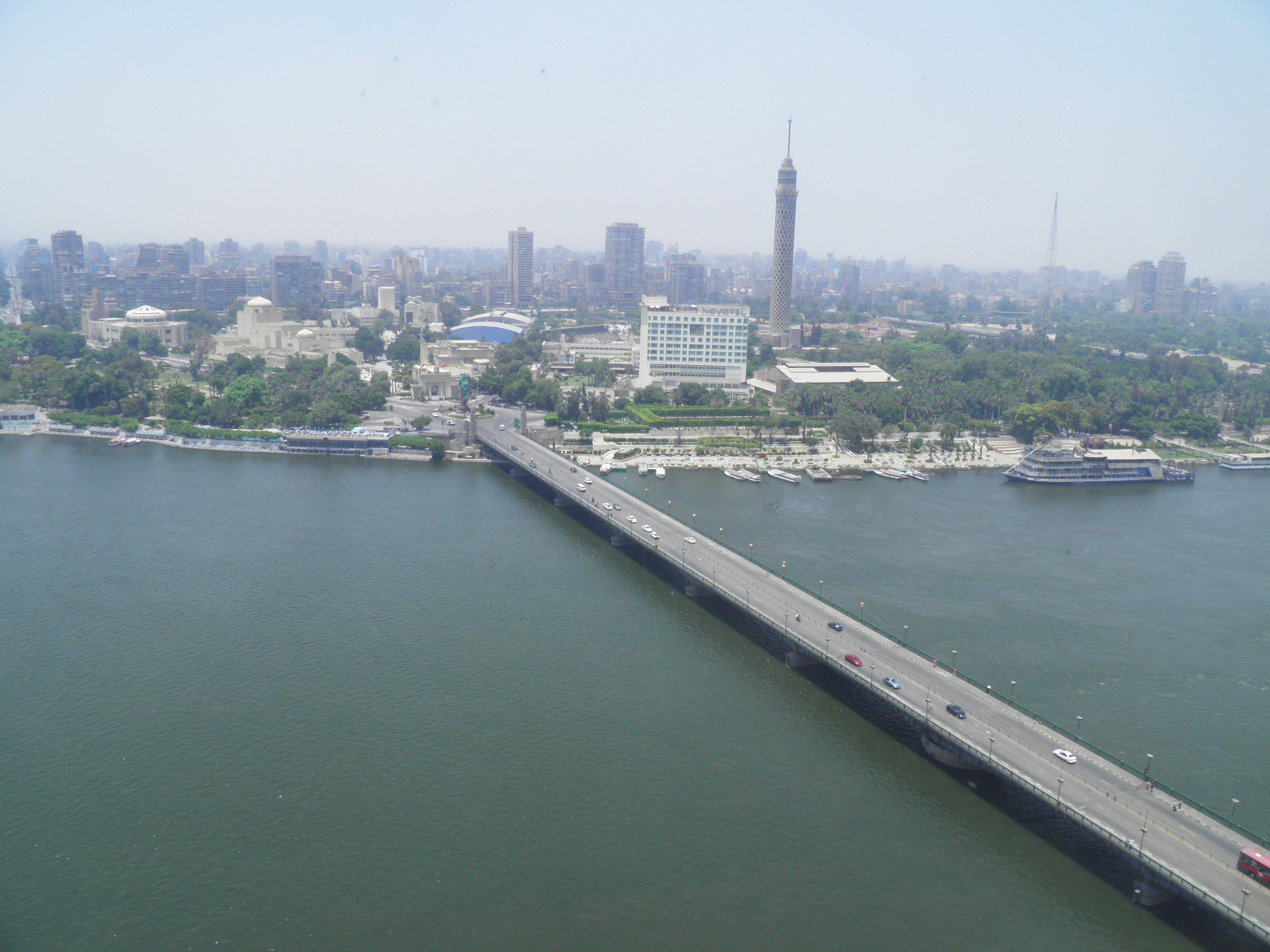 Kasr Al Nile Bridge